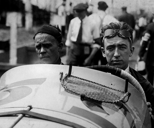 Elgin, Ill., Aug. 28, 1920. Jimmy Murphy, who finished 3rd in this Duesenberg, with his mechanic, Ernie Olson.